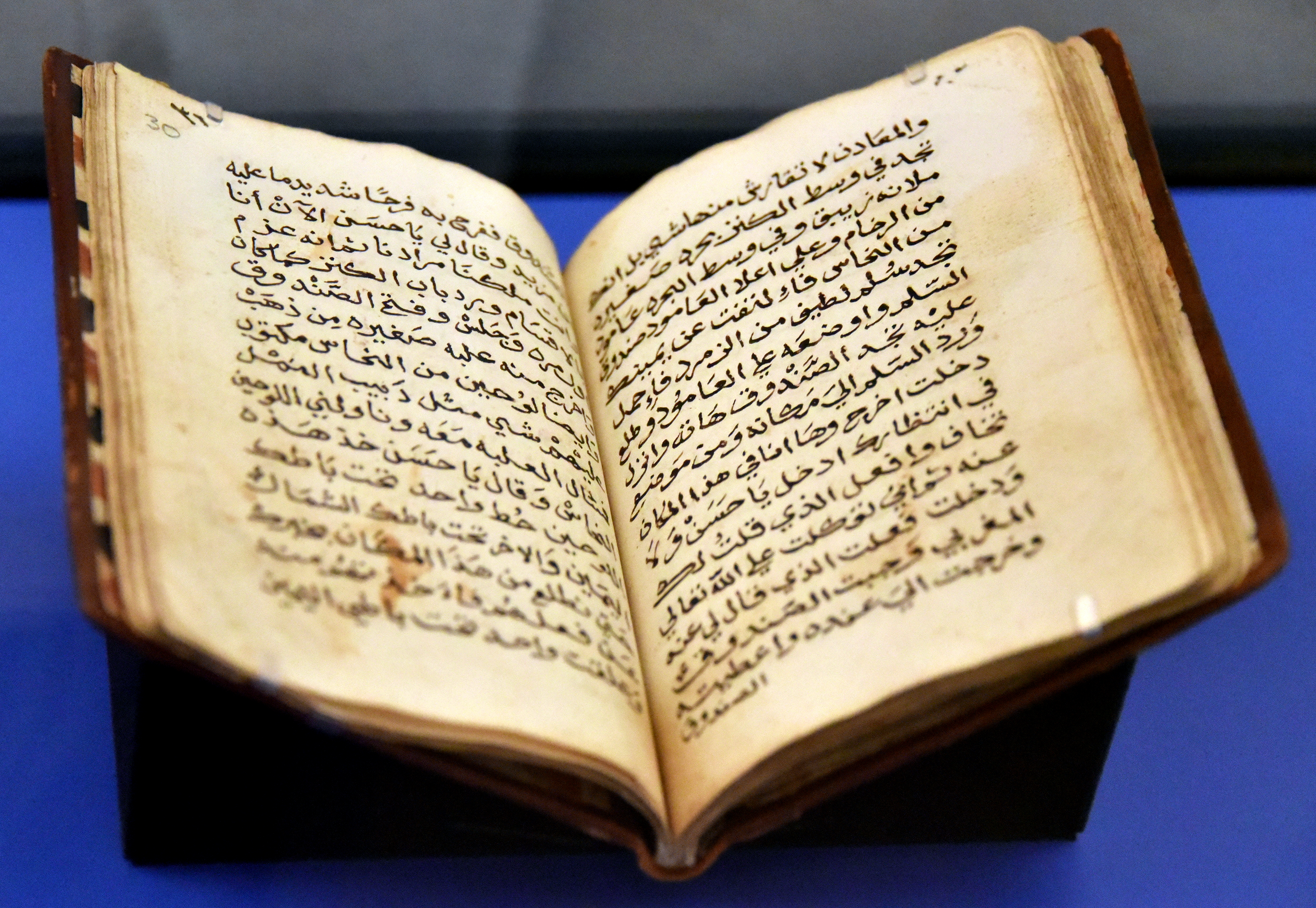 Tales of Arabian Nights (written in the Arabic language) from the collection of Johann Gottfried Wetzstein, Syrian, 18th century CE. It was displayed at the Neues Museum in Berlin, Germany, Exhibition of "Cinderella, Sindbad & Sinuhe, Arab-German Storytelling Traditions", April 18, 2019, to August 18, 2019. Berlin State Library, Prussian cultural heritage, Orient Department (Staatsbibliothek zu Berlin, Preußischer Kulturbesitz, Orientabteilung, Wetzstein II 1082).